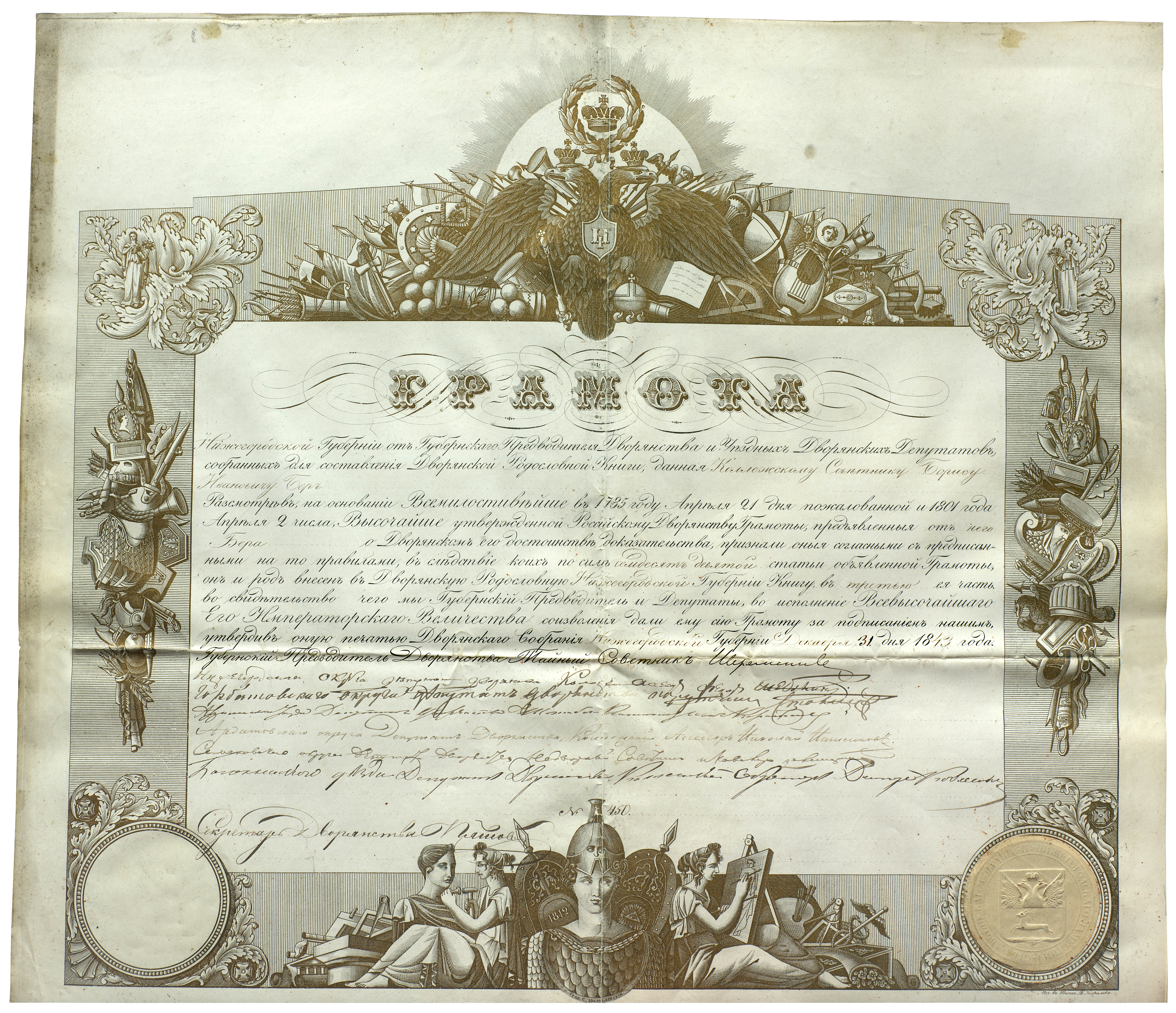 Nobleman's sertificate of Boris Nik. Behr